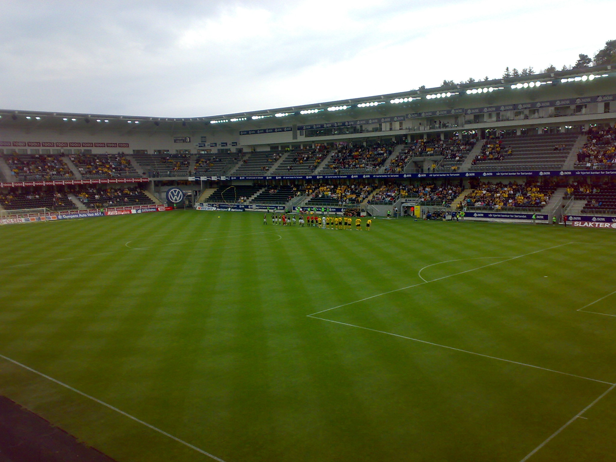 IK Start at Sør Arena, 1 div match vs Moss, in Kristiansand, Norway